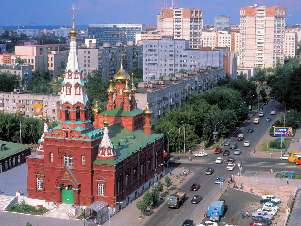 A view over the city of Perm